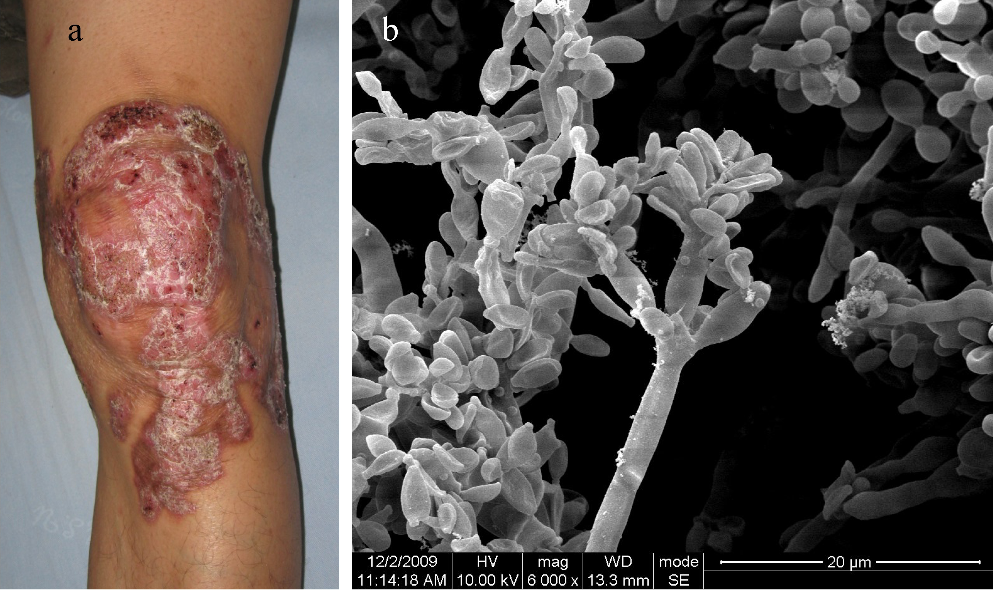 a. A 34-year-old male with a 12-year history of a red plaque in the left knee. b. Under SEM observation: dematiaceous hyphae with many well-defined septa, conidiophores, and oval brown spores arranged in a clump could be seen. The surfaces of conidiogenous cells were smooth. Oval spores were arranged around conidiophores.